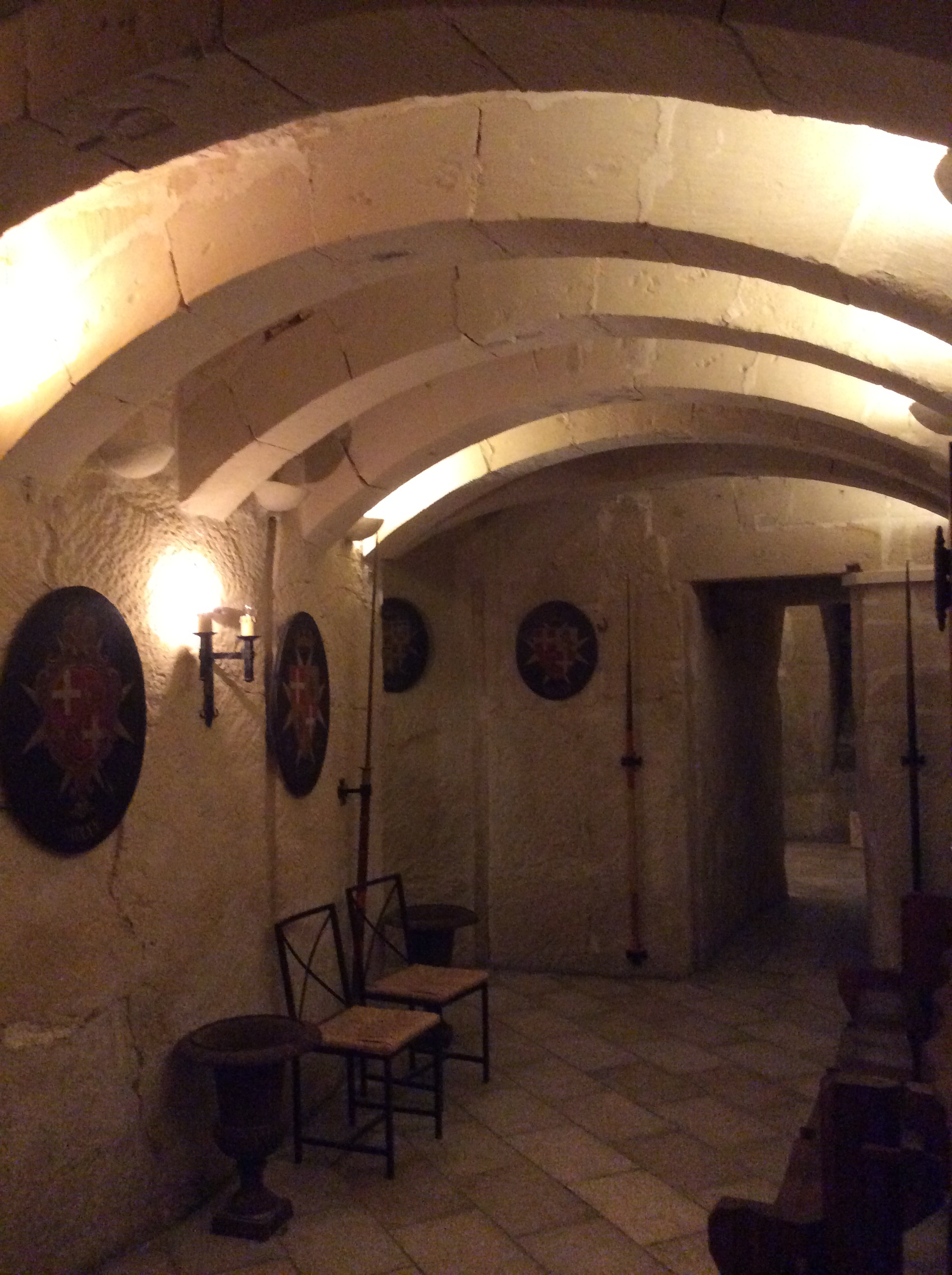 La Taverna Del Marchese - Naxxar, Malta - underground of Palazzo Parisio (Palace named for Paolo Parisio), Tavern named for Marquis Giuseppe Scicluna